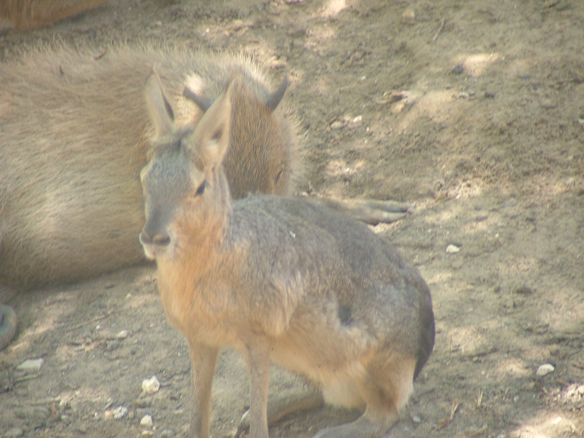 A Patagonian Mara (Dolichotis patagonum) at the Jerusalem Biblical Zoo.